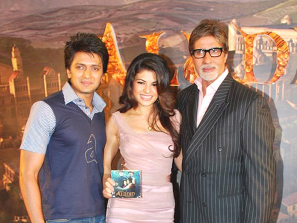 The principal cast of the Indian film Aladin (2009) at its audio release.